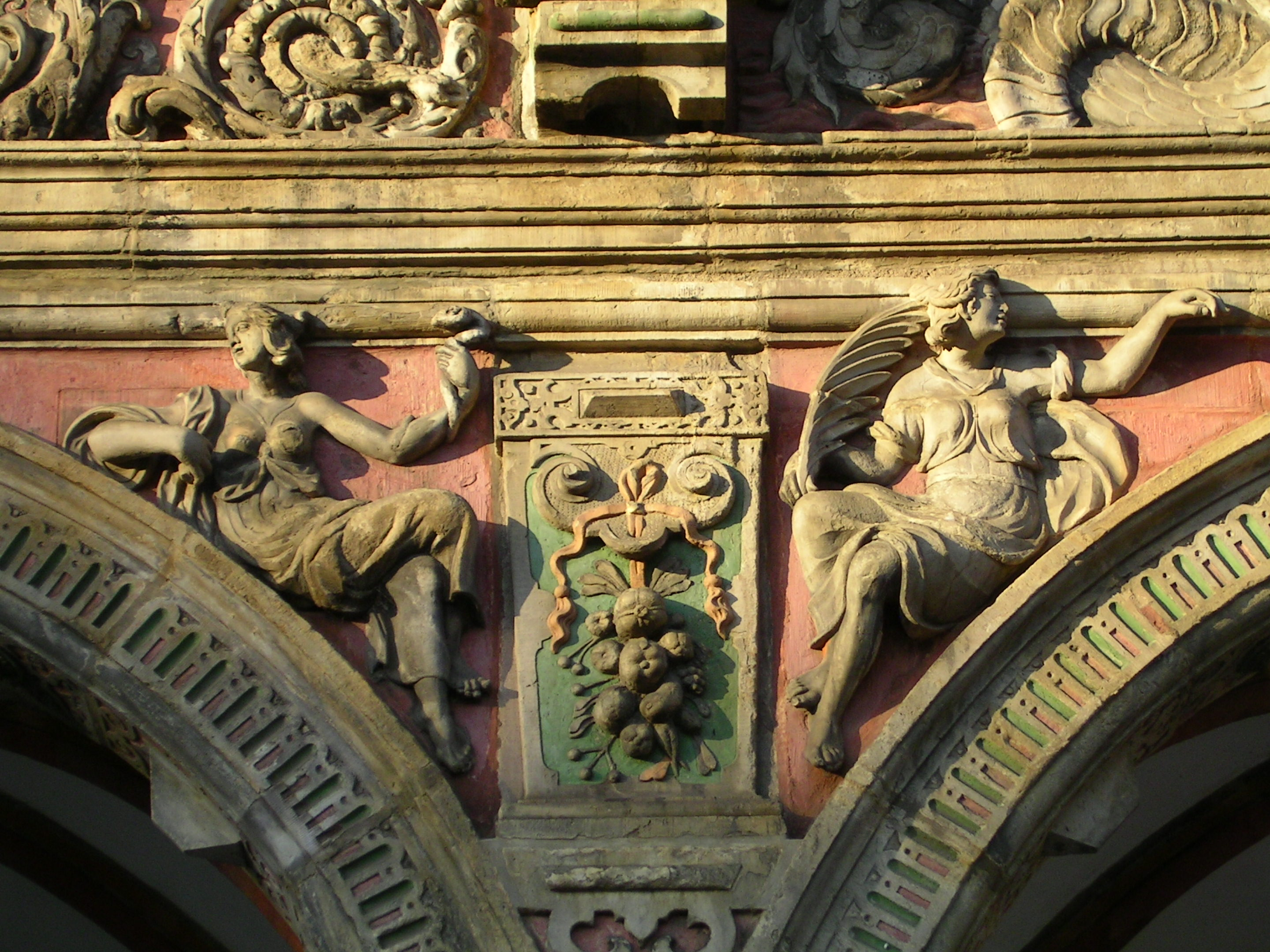 DE: (Rathaus). - EN: The town hall - Bremen City in Germany.